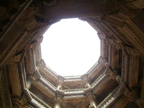 Adalaj Stepwell, 10 Kilometer north of Ahmedabad ગુજરાતી: અડાલજની વાવ, અમદાવાદથી ૧૦ કિ.મી. ઉત્તરમાં